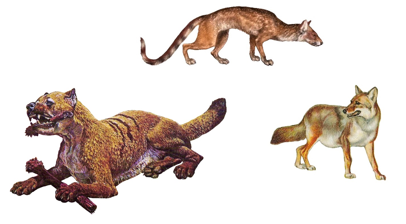 Canid subfamilies, with Hesperocyoninae on top, Borophaginae bottom left and Caninae bottom right.